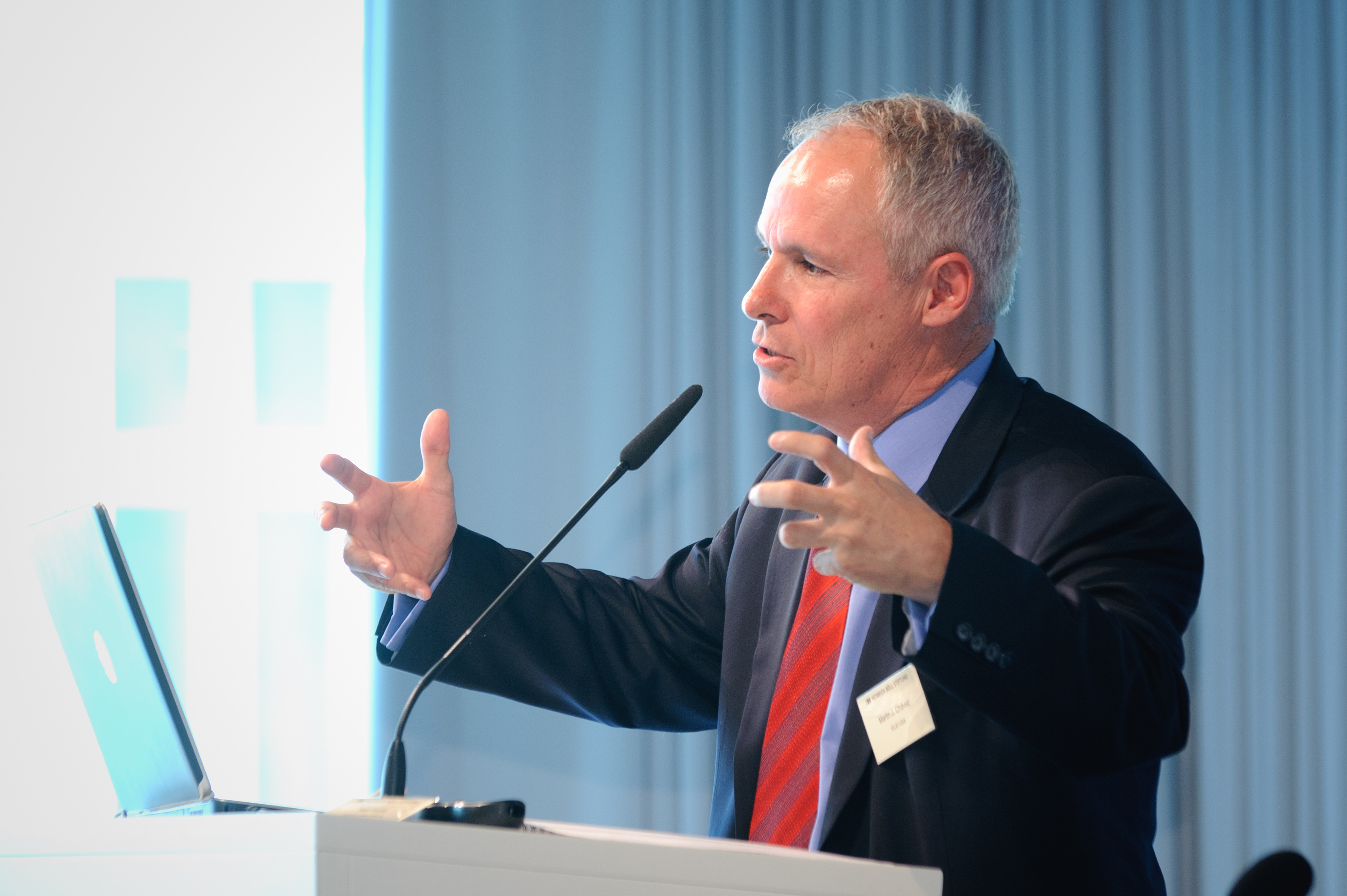 Martin J. Chavez (Exec.Dir. ICLEI USA, Washington DC) Foto: Stephan Röhl